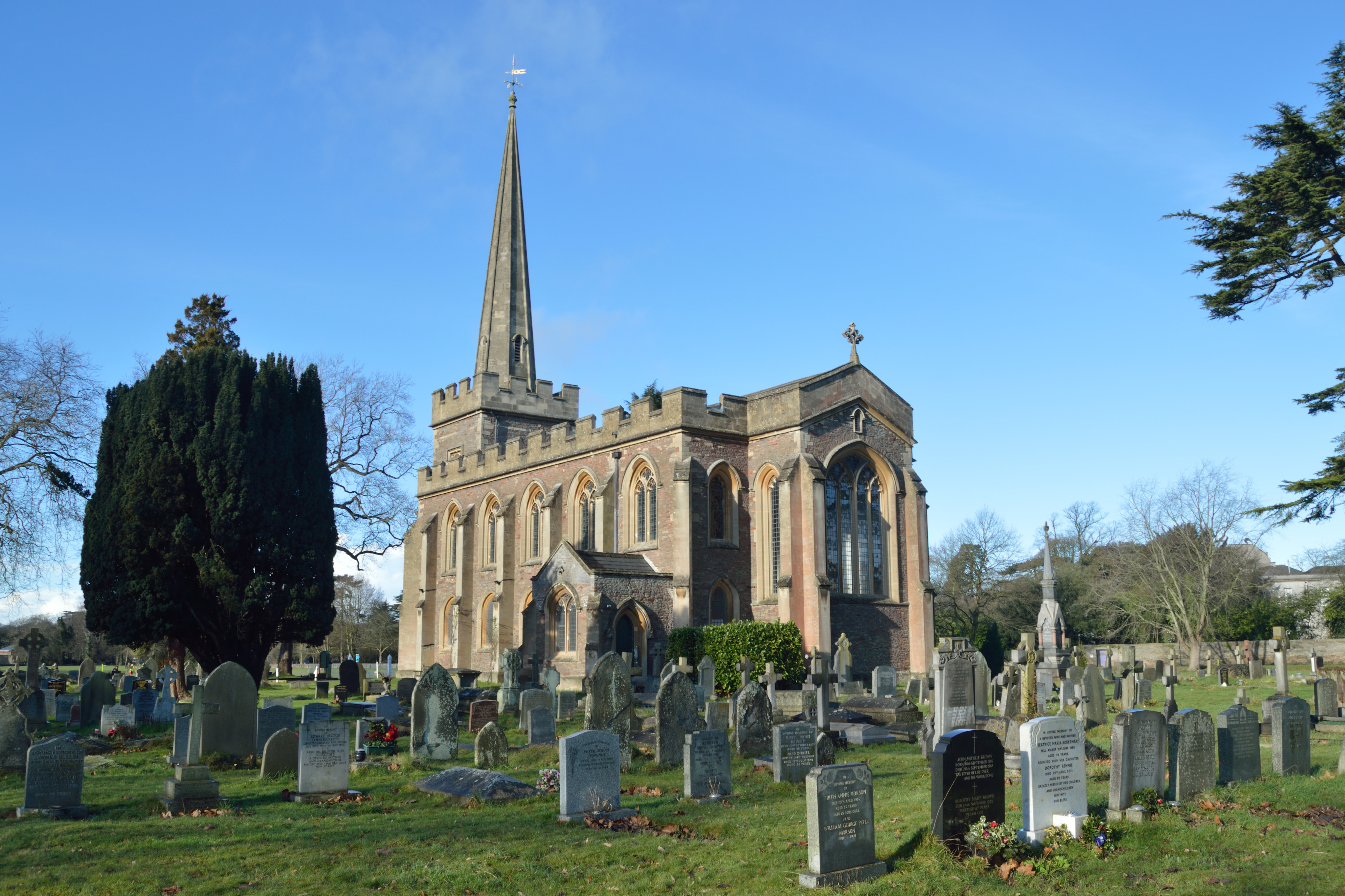 St John the Baptist church, Frenchay, near Bristol.